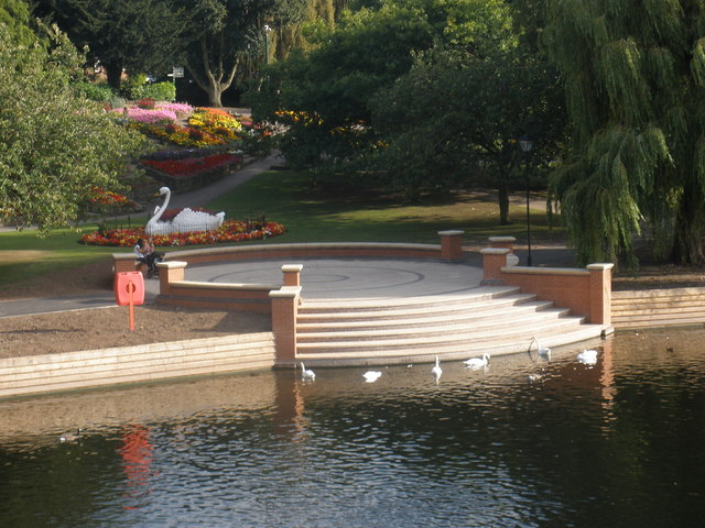 Stapenhill Gardens September 2009 The Gardens have just received a new feature.